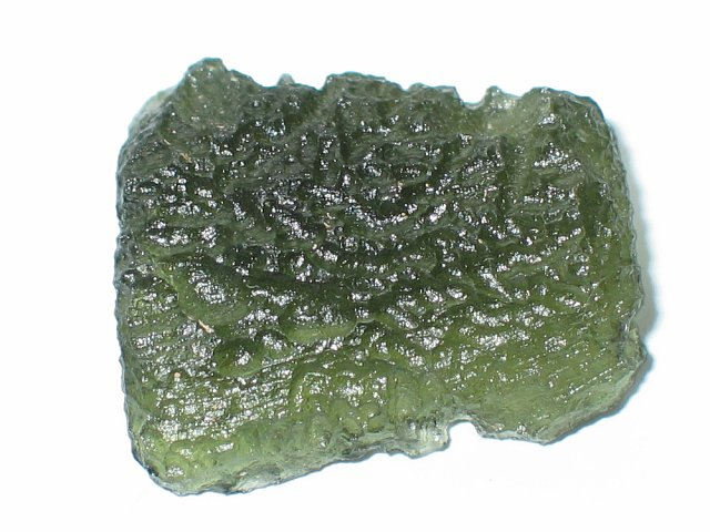 Moldavite